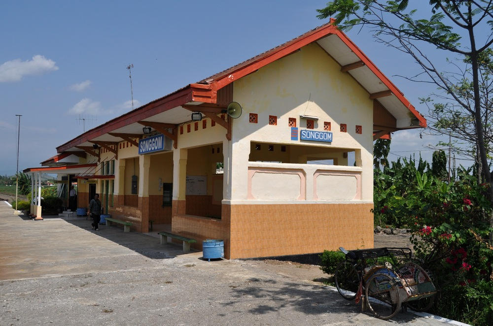 Songgom train station in Central Java